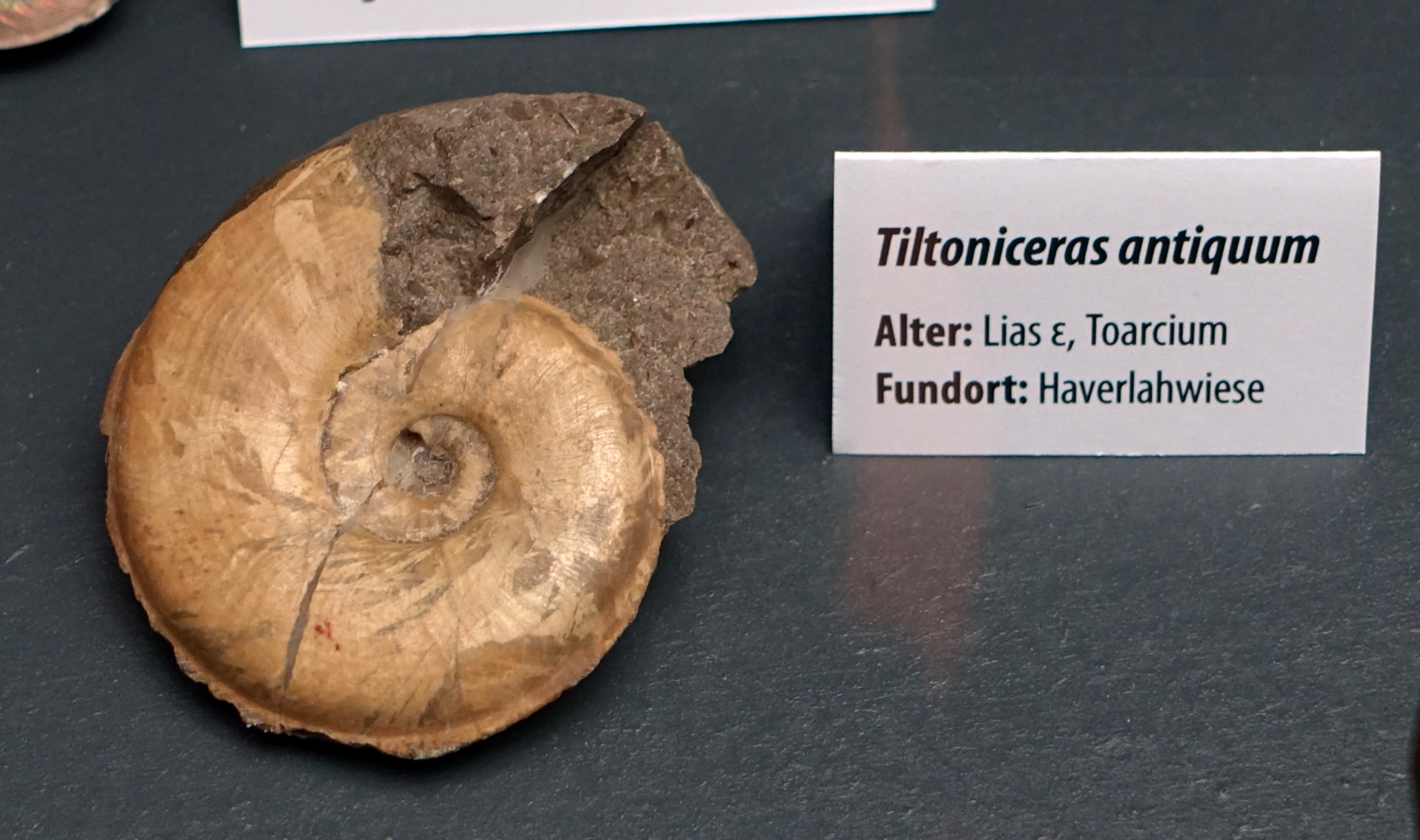 Exhibit in the Naturhistorisches Museum, Braunschweig, Germany.